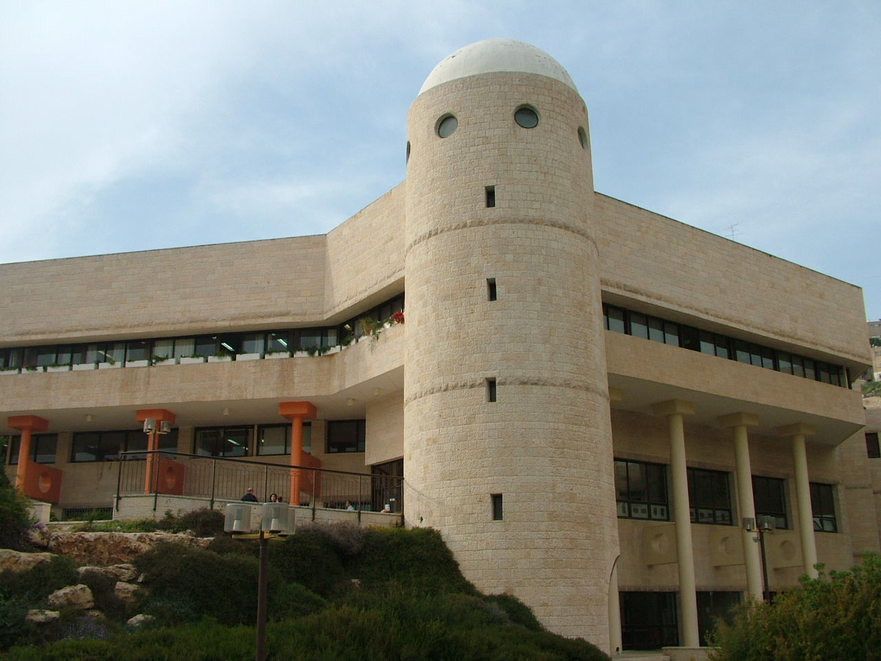 IASA the school building